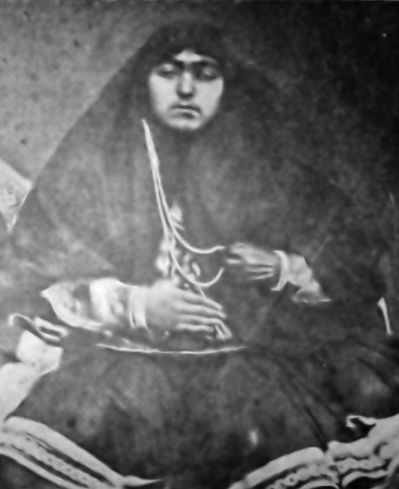 Forouq-ol-Dowleh daughter of Nasser al-Din Shah Qajar